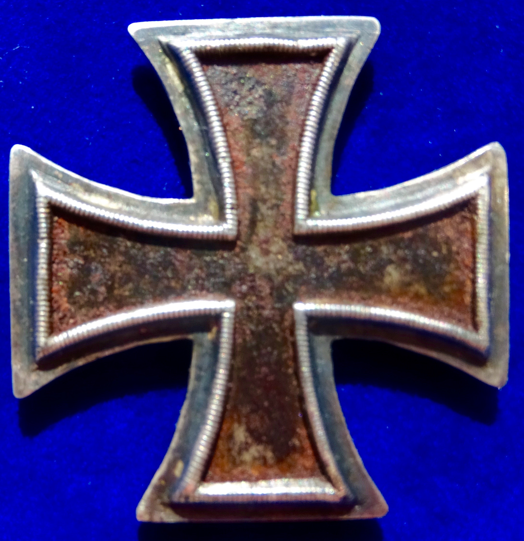 Fe/Ag 43 x 43 mm. 14.41 g. Friedrich Wilhelm III, 1797 - 1840 The original Iron Cross embedded in Silver/ 8 loops for fixing to the uniform. v.Heyden 548. Designer: Schinkel, Karl Friedrich, 1781 Neuruppin - 1841 Berlin Condition: VERY FINE, rust spots.